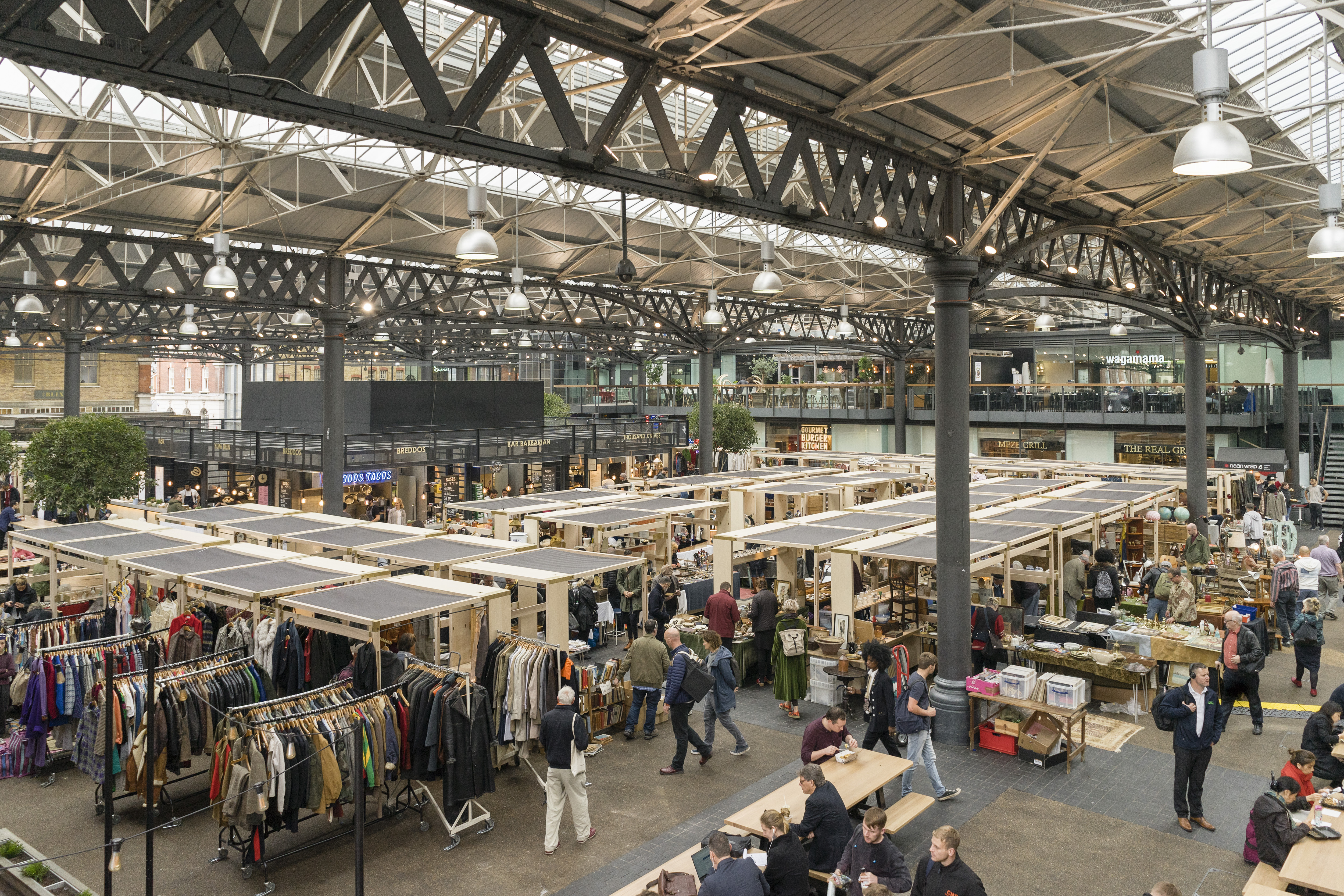 Old Spitalfields Market Revamp